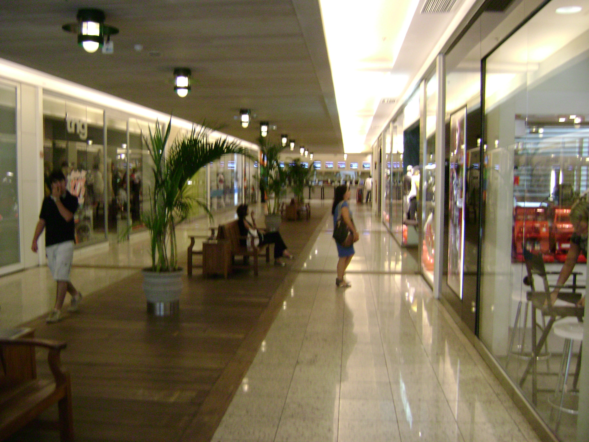 Corredor no Pátio Savassi